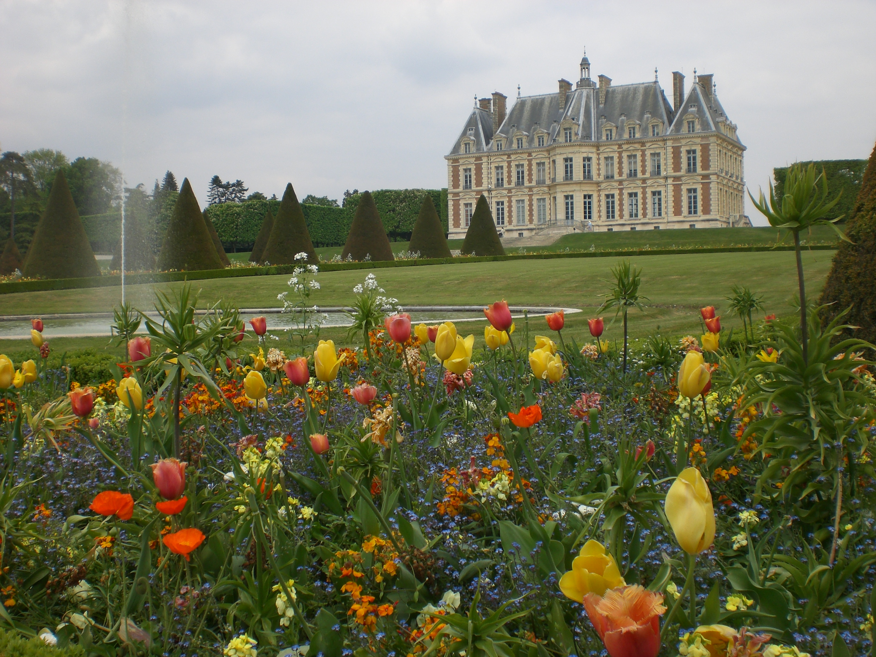 Sceaux, Castle and Parc by Le Nôtre